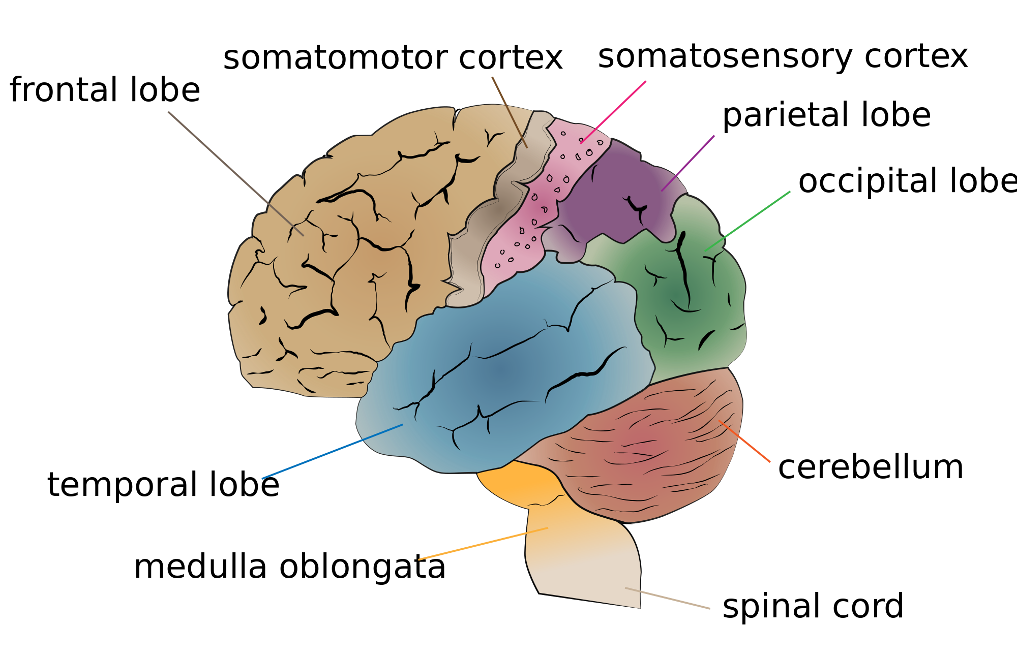 Functional specialization of the brain.